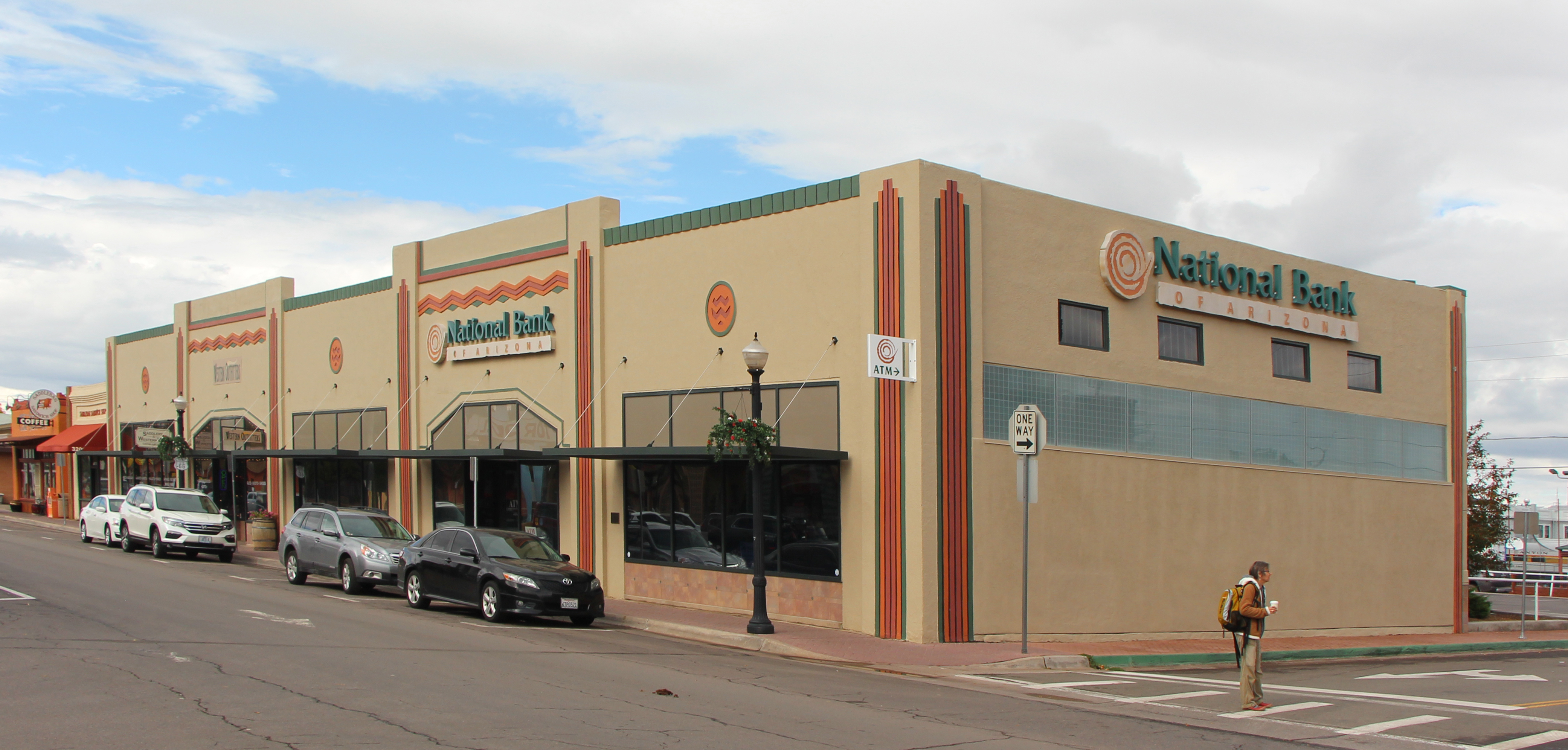 Babbitt-Polson Building, 314 W. Route 66, Williams, AZ